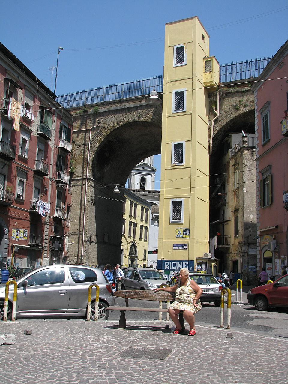 Stella, part of Napoli (Naples), Italy